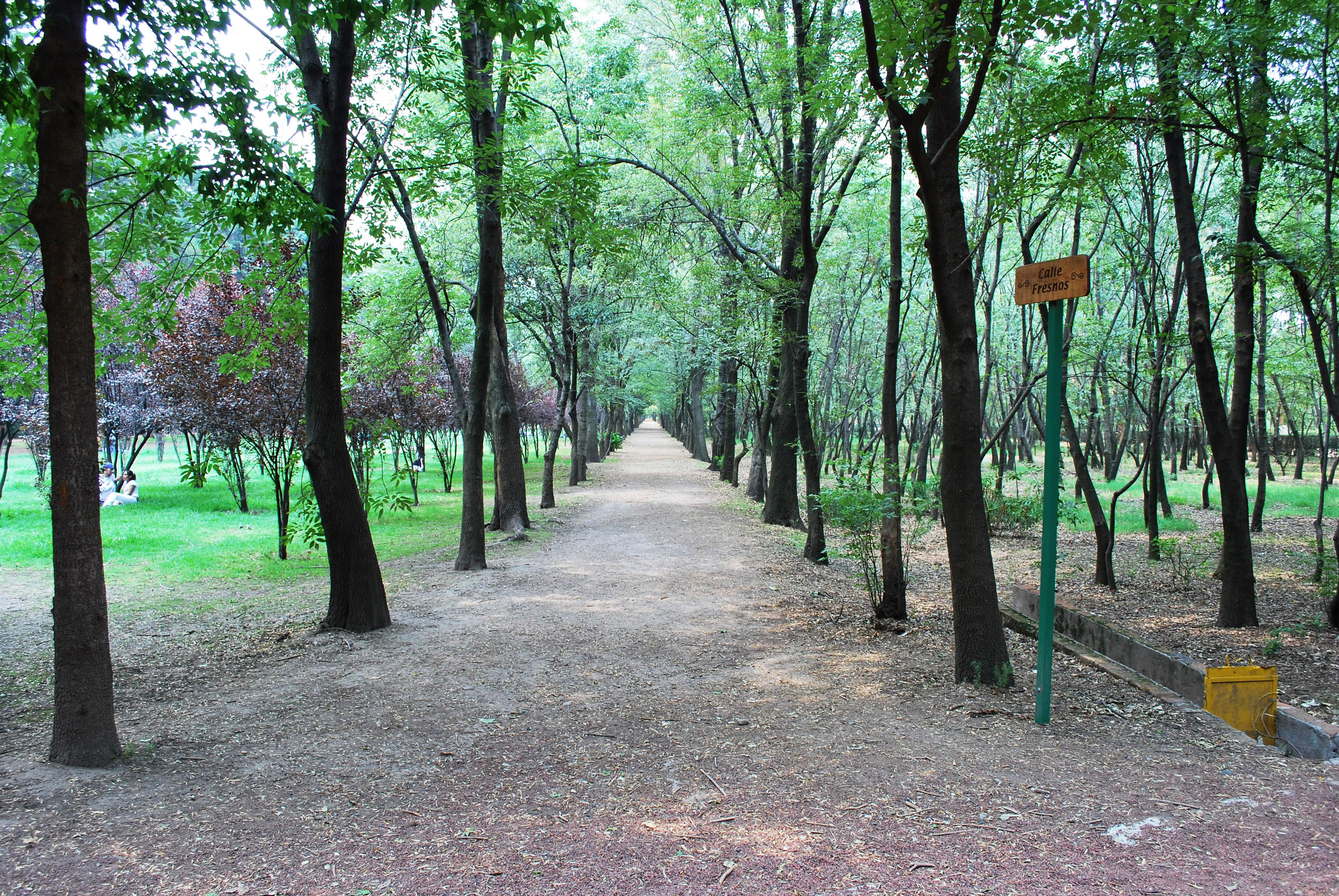 One of the numerous smaller paths that crisscross the Viveros de Coyoacan park and plant nursery in Coyoacan borough in Mexico City